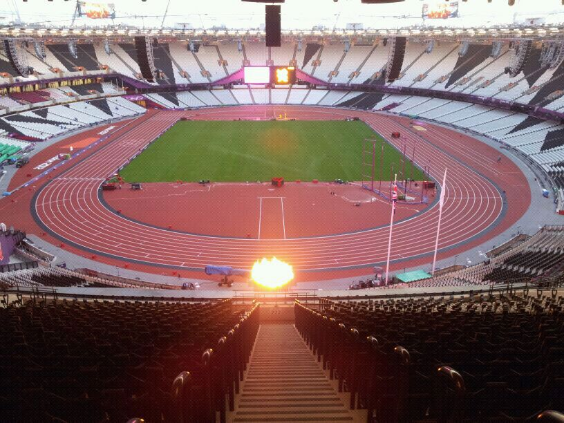 Inside the London Olympic stadium